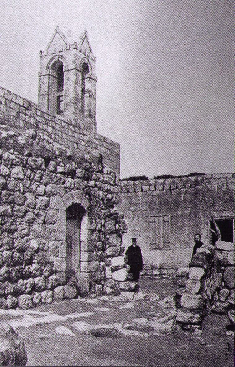 Old church in I'billin during Mariam Baouardy's (d. 1878) lifetime. Original description in